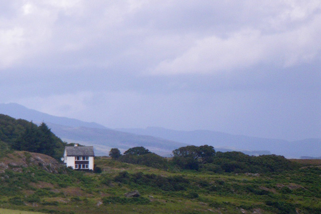 Home in scenic setting west of Aros Bay